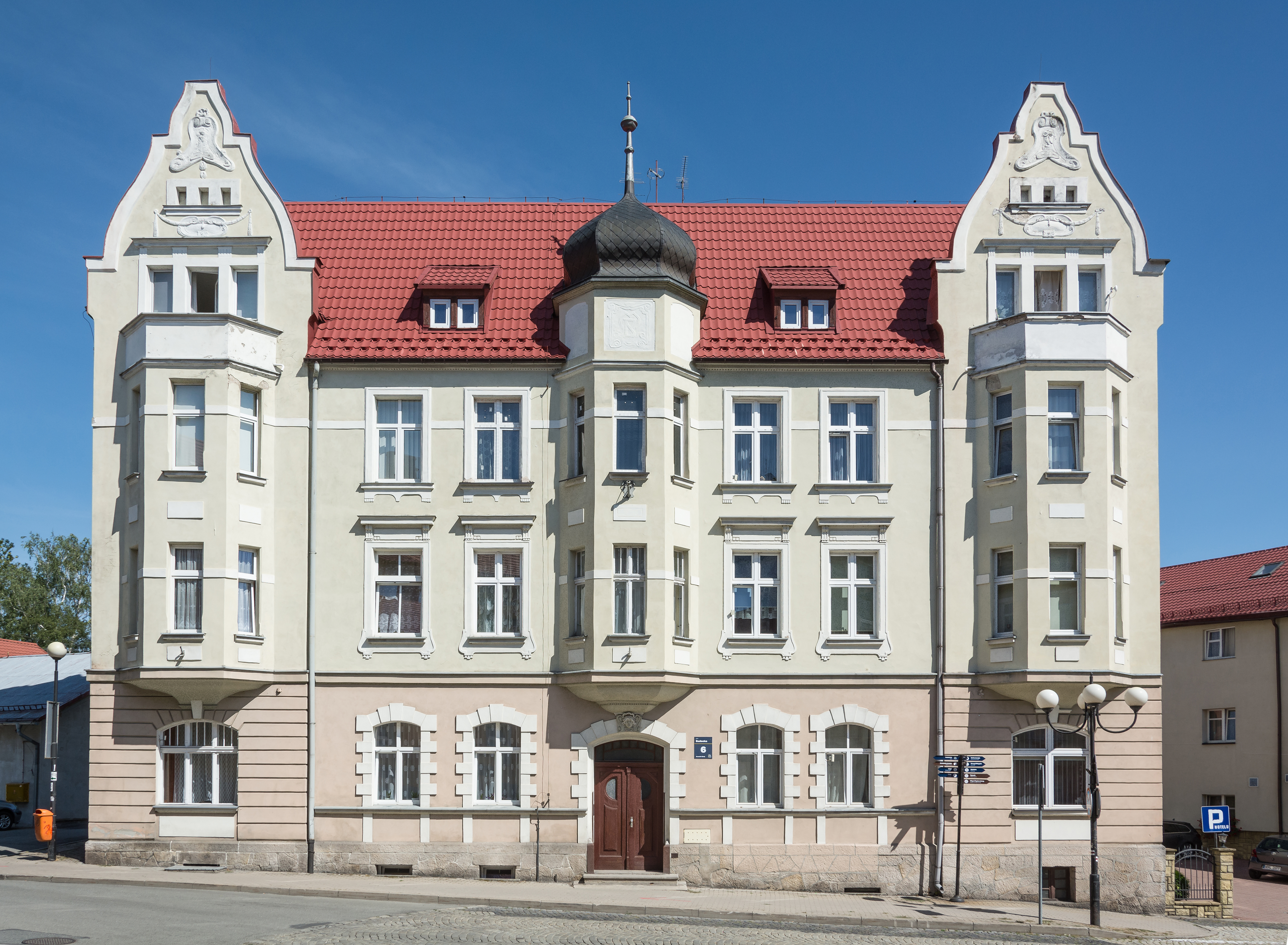 6 Sudecka Street in Duszniki-Zdrój Wikidata has entry Q30047062 with data related to this item.